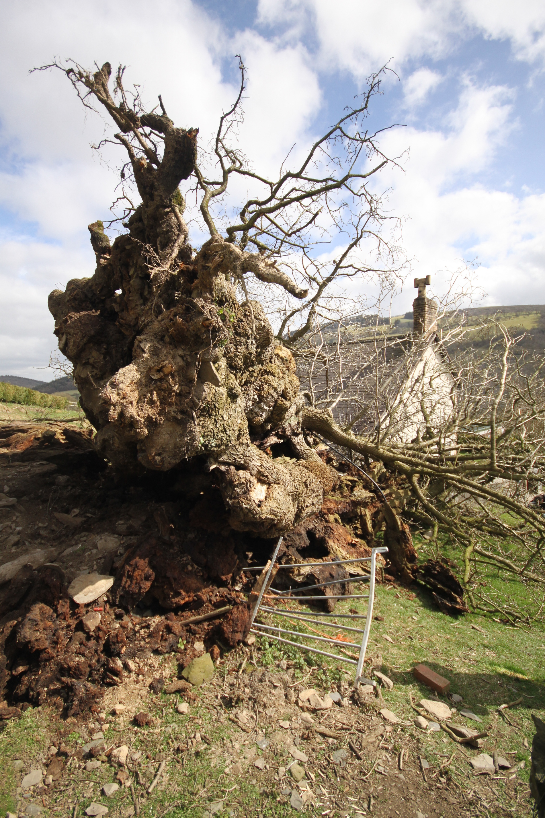 Wales loses its oldest oak tree. "We must learn lessons from this", says the Woodland Trust. More here here.